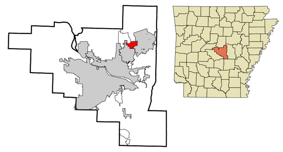 This map shows the incorporated and unincorporated areas in Pulaski County, Arkansas, highlighting the former census-designated place Gravel_Ridge in red. See also Sherwood.